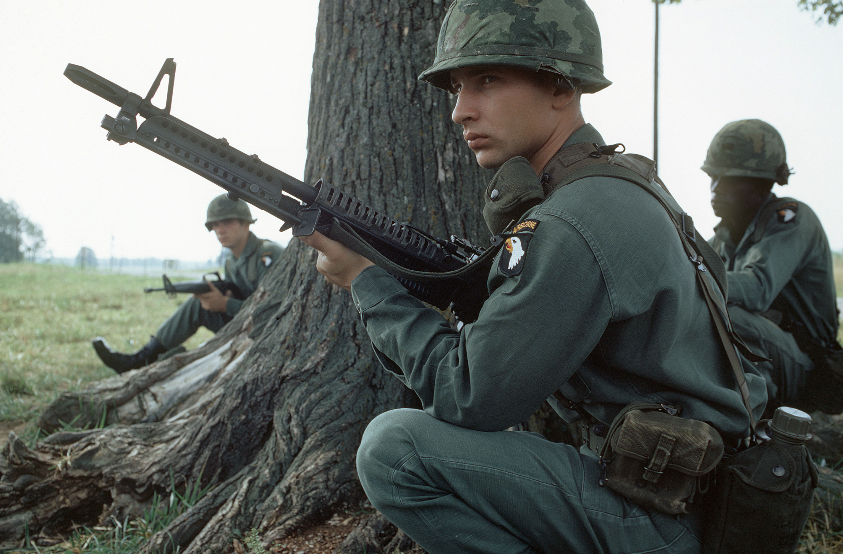 A U.S. Army soldier from the 101st Airborne Division, armed with an M60 machine gun, participates in a field exercise in 1972.